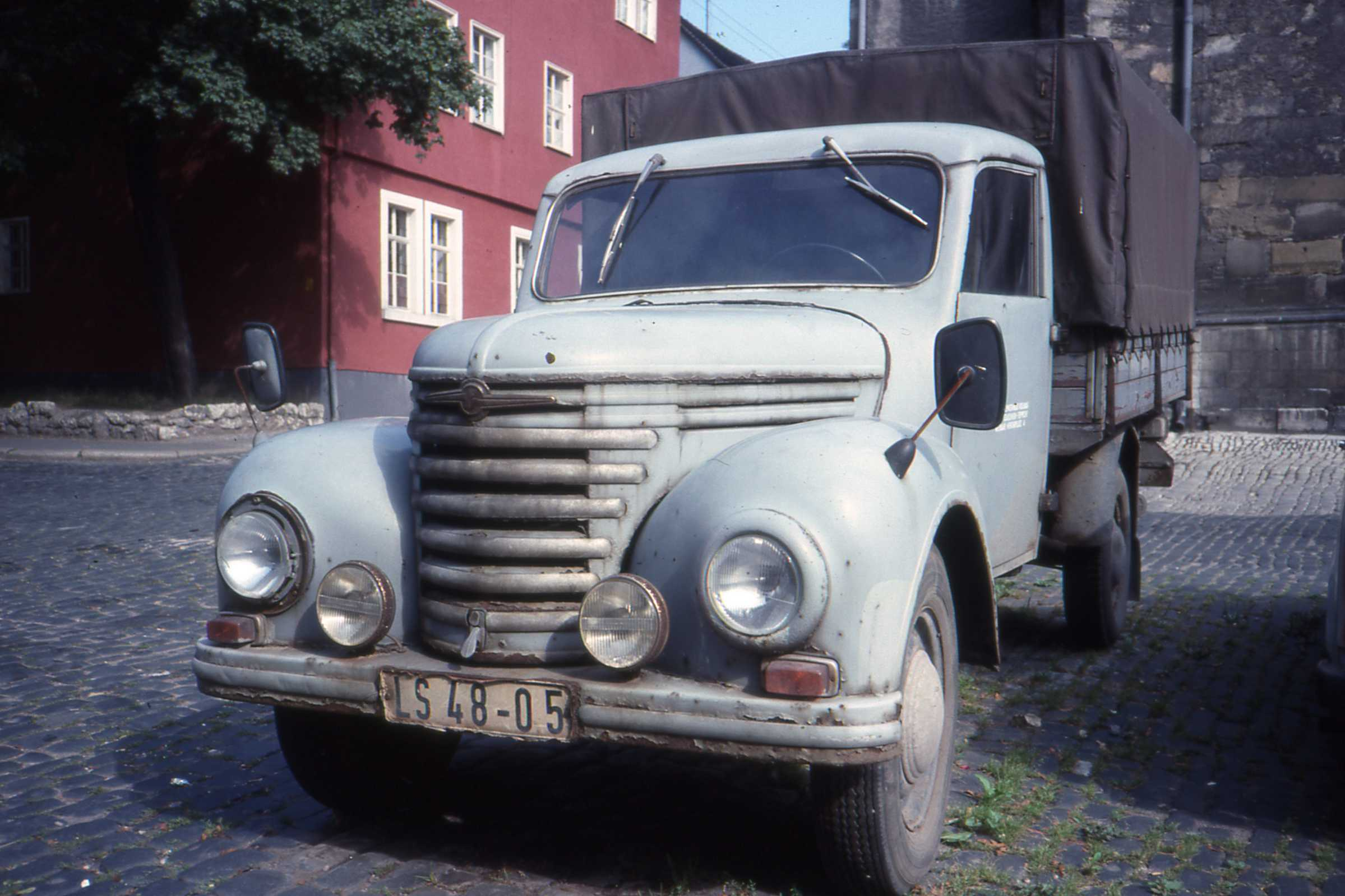 IFA FRAMO V901 - LKW. Erfurt DDR, Aug. 1989. LS registration for Bezirk Erfurt where I think this photo was taken - Weimar or Erfurt itself. The Framo V901 was introduced in 1953 but the firrm was renamed Barkas in 1957, producing this small truck until the introdction of the famous B1000 van in 1961. This vehicle seems to have the badge consisting of a piston with an F attached. The Framo marque became Barkas in 1957 and production moved to Karl-Marx-Stadt (Chemnitz) in 1958 when I guess the Barkas B badge in the same mount was adopted. A visit to the Frankenberg vehicle museum in Saxony would seem interesting.